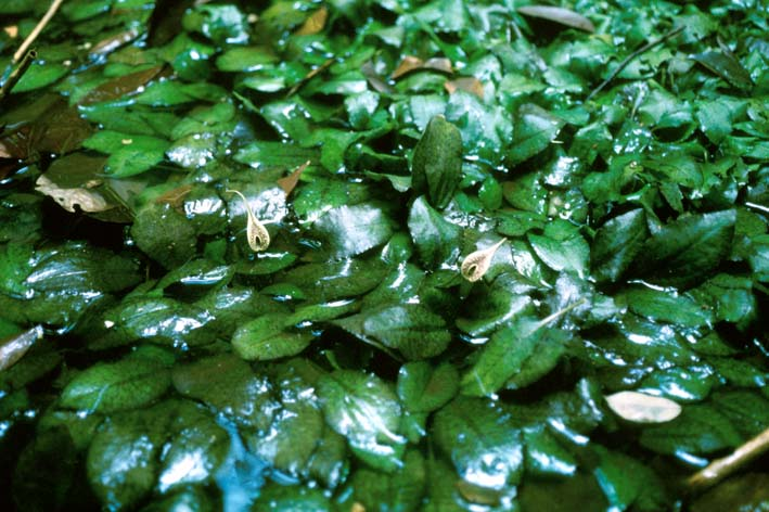 Cryptocoryne timahensis photograped in Bukit Timah, Singapore